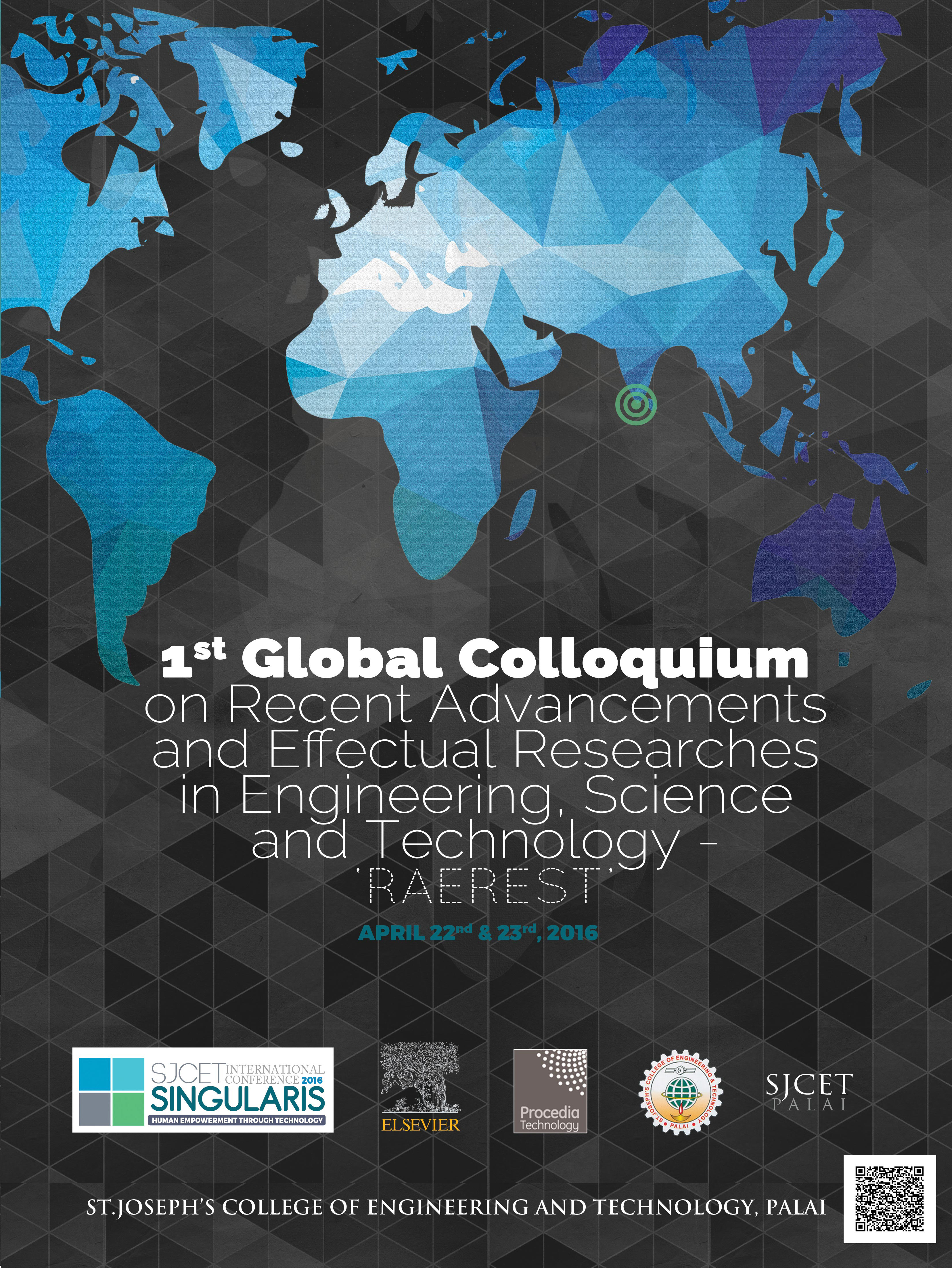 The international Conference on Global Colloquium in Recent Advancement and Effectual Researches in Engineering Science and Technology (RAEREST) organized by SJCET Palai